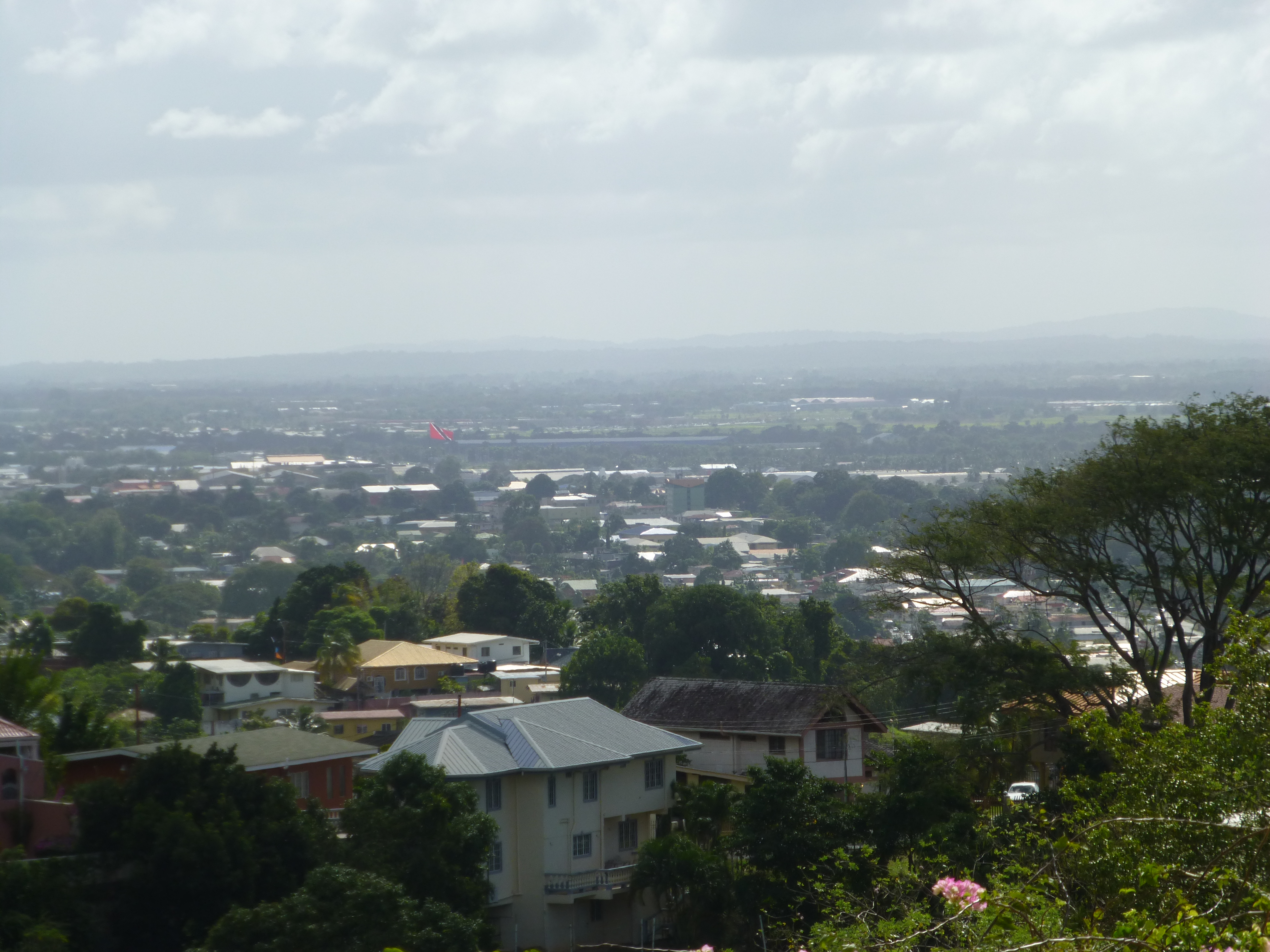 View over Tunapuna, Trinidad. Background (flag): Trincity. Viewing point: Mount St. Benedict, Tunapuna, looking southeast.